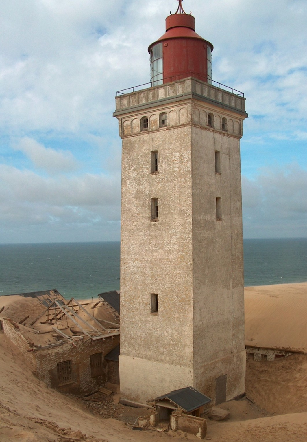 Rubjerg Knude lighthouse in Jutland, Denmark